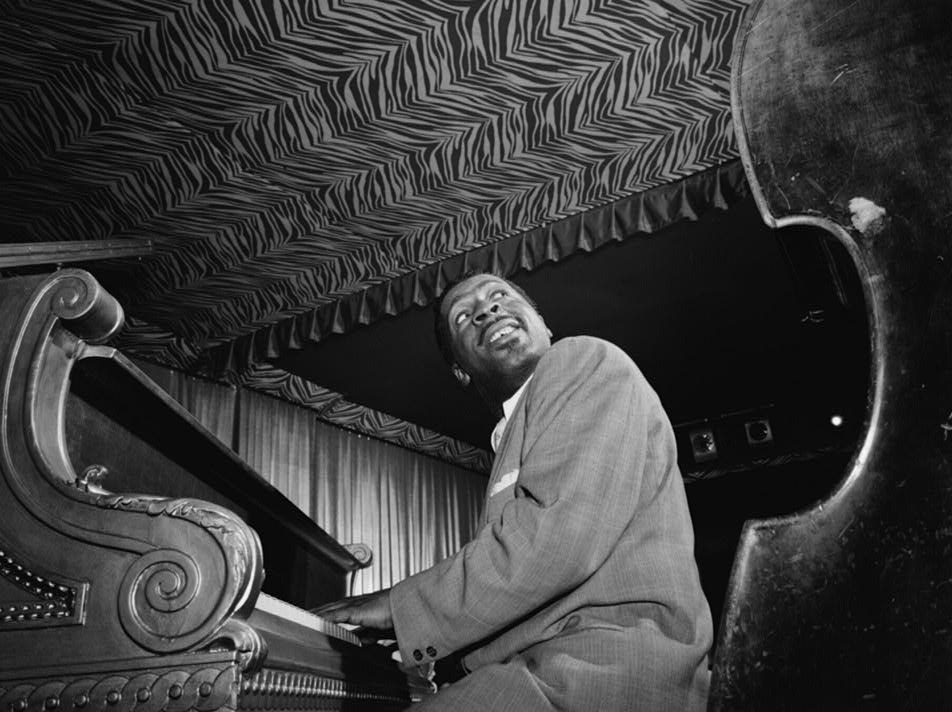 Erroll Garner on piano